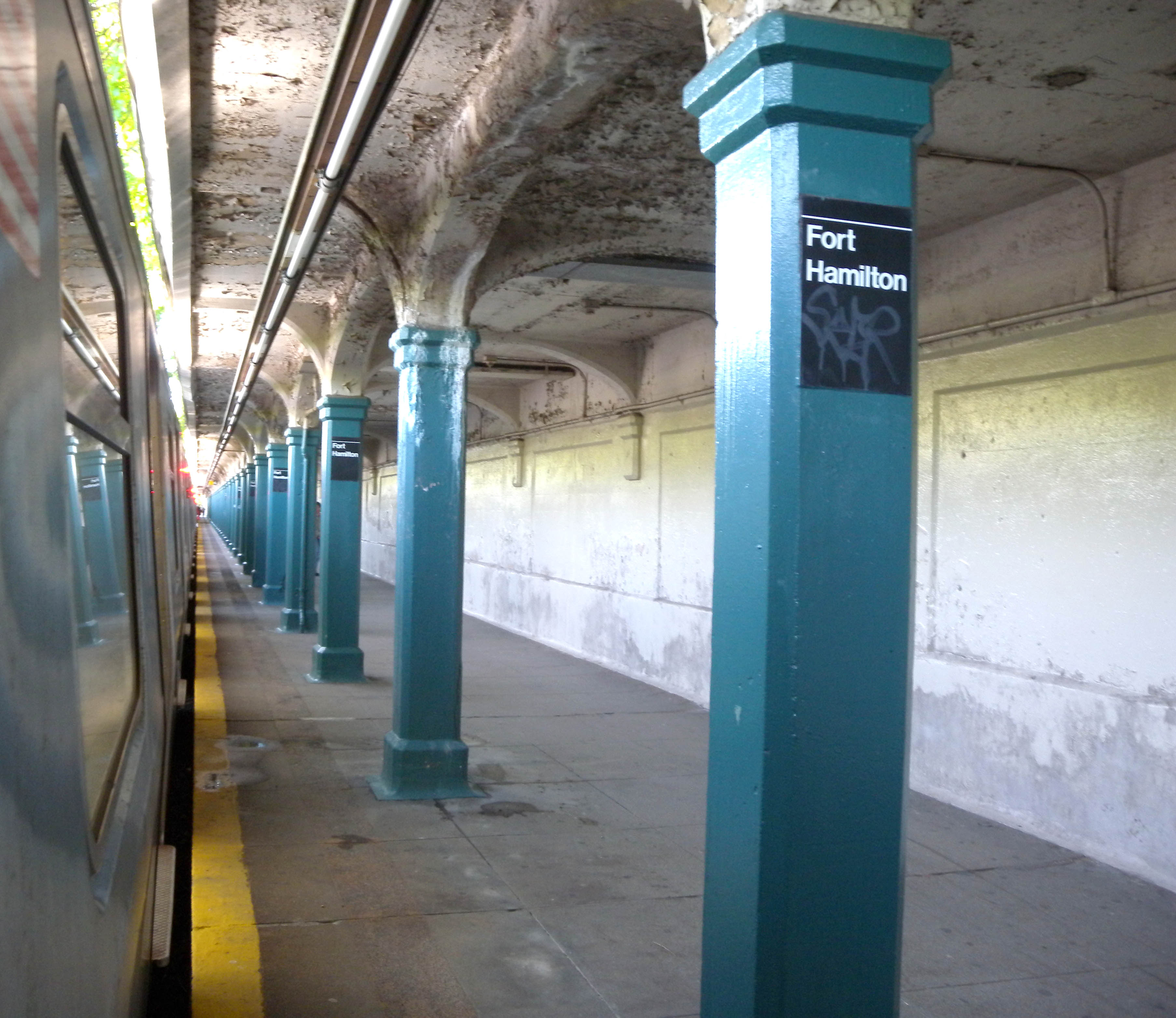 Looking south along southbound platform at Fort Hamilton Parkway (BMT Sea Beach Line) station platform.